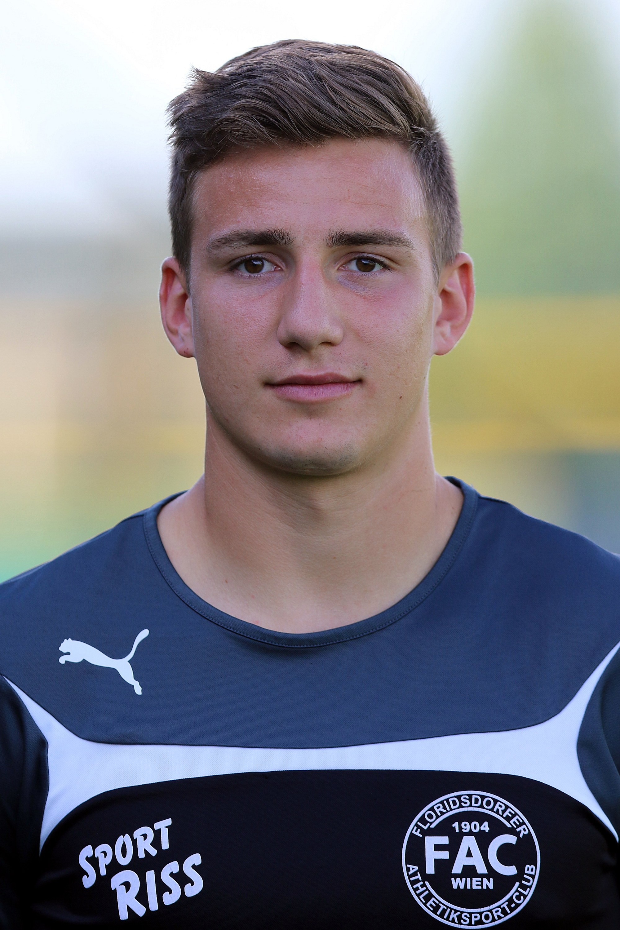 Floridsdorfer AC squad for the 2016-17 season. – The photo shows